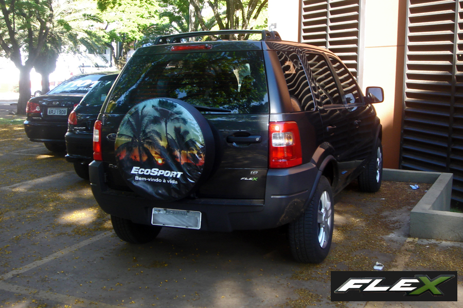 Picture taken in Maringa, Parana, Brazil. Ford EcoSport Flex Brazilian version. 2008